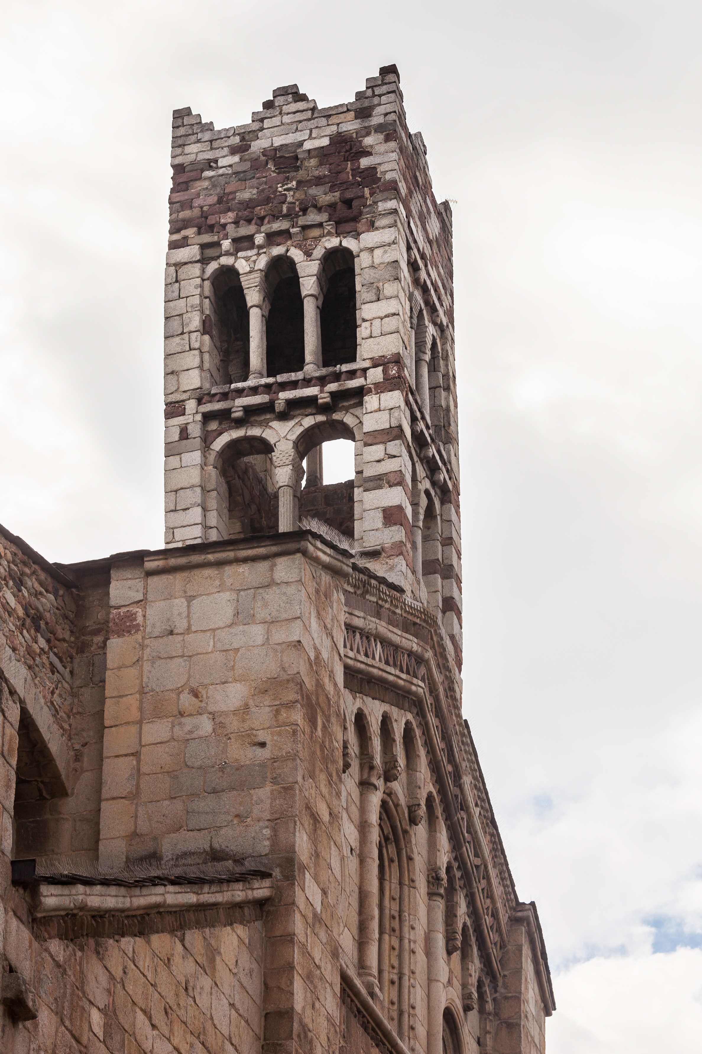 Bell tower of the Cathedral of La Seu d'Urgell. Catalonia